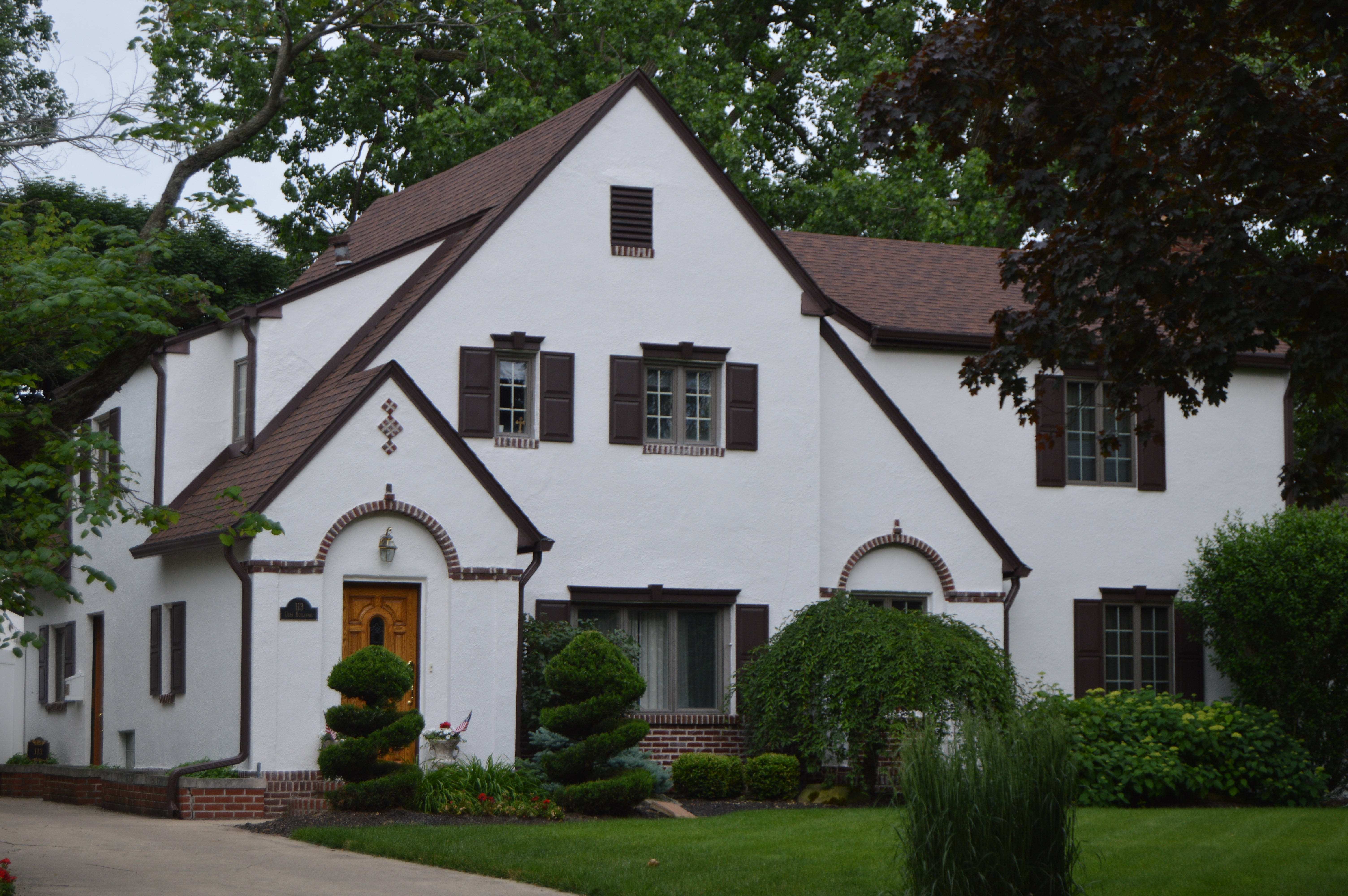 Front of the house located at 113 Ulen Boulevard in Ulen, Indiana, United States. It is part of the Ulen Historic District, a historic district that is listed on the National Register of Historic Places.